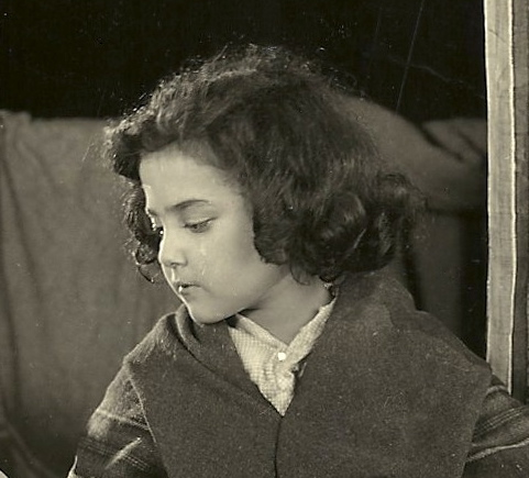 Publicity photo of Miriam Battista in her most famous role, as Minnie Ginsberg in the film Humoresque (1920).